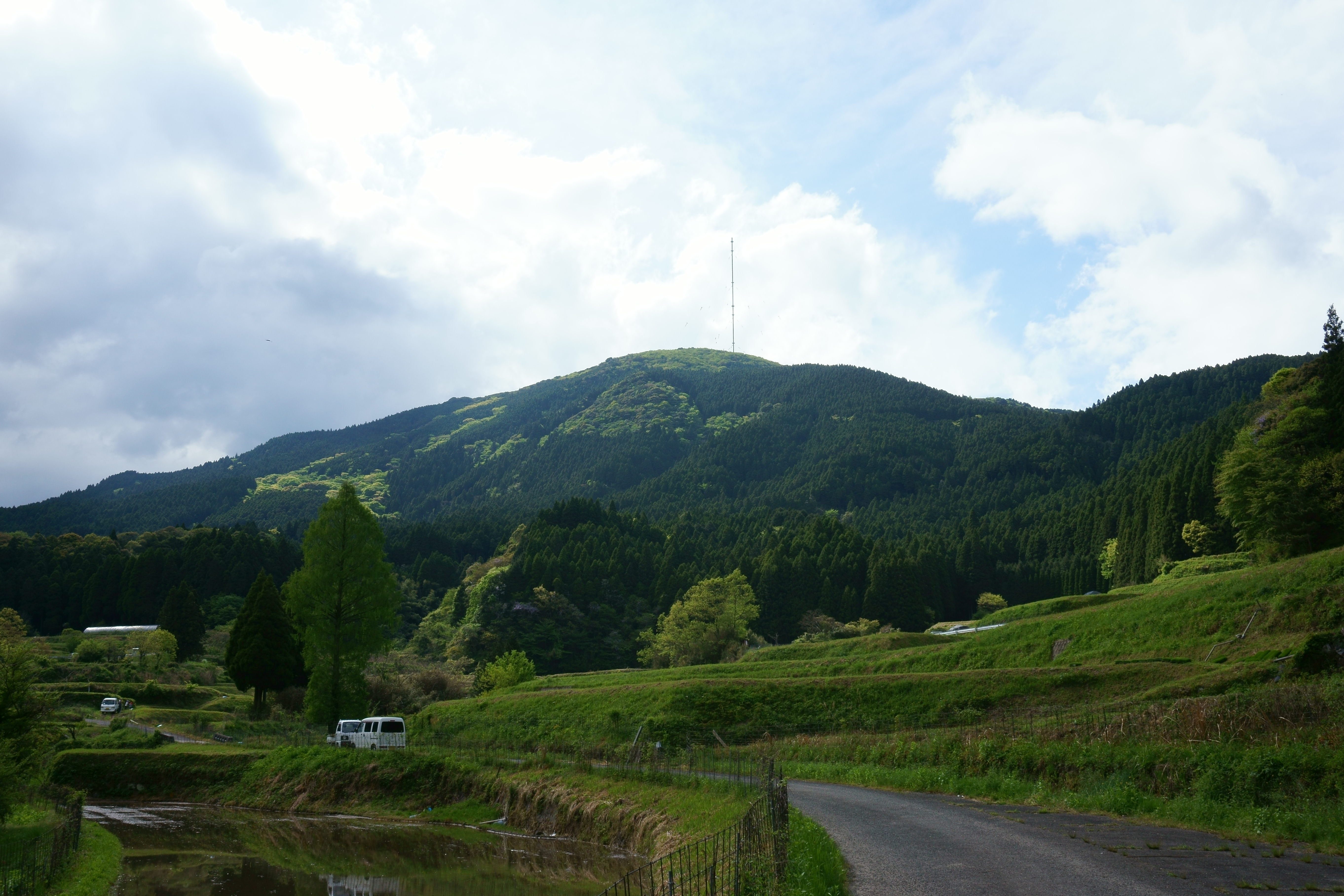 Mount Hagane, of Sefuri Mountains, from Fuji, Saga city, Saga prefecture.